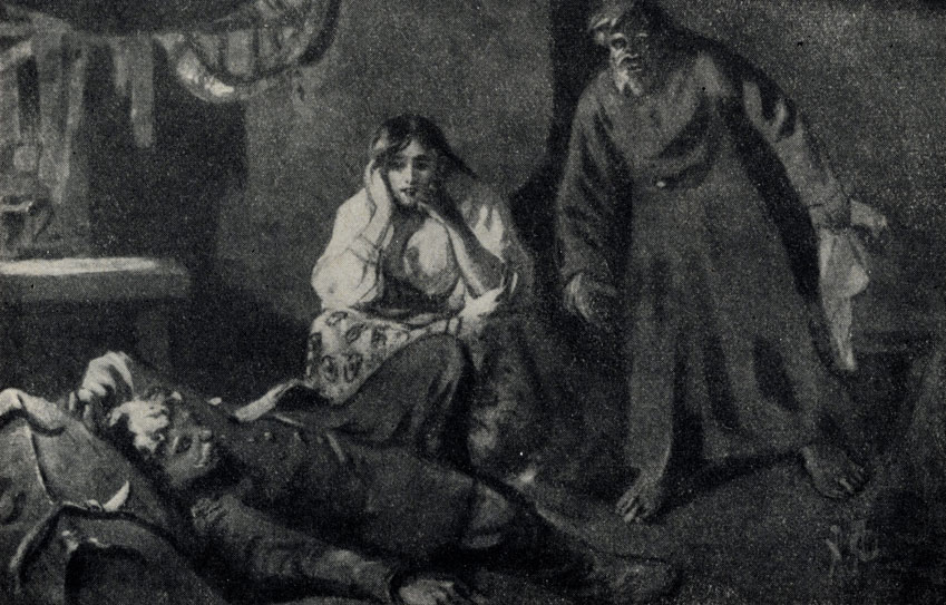 Illustration to Anton Chekhov's short story "The Witch" by Aleksandr Apsit